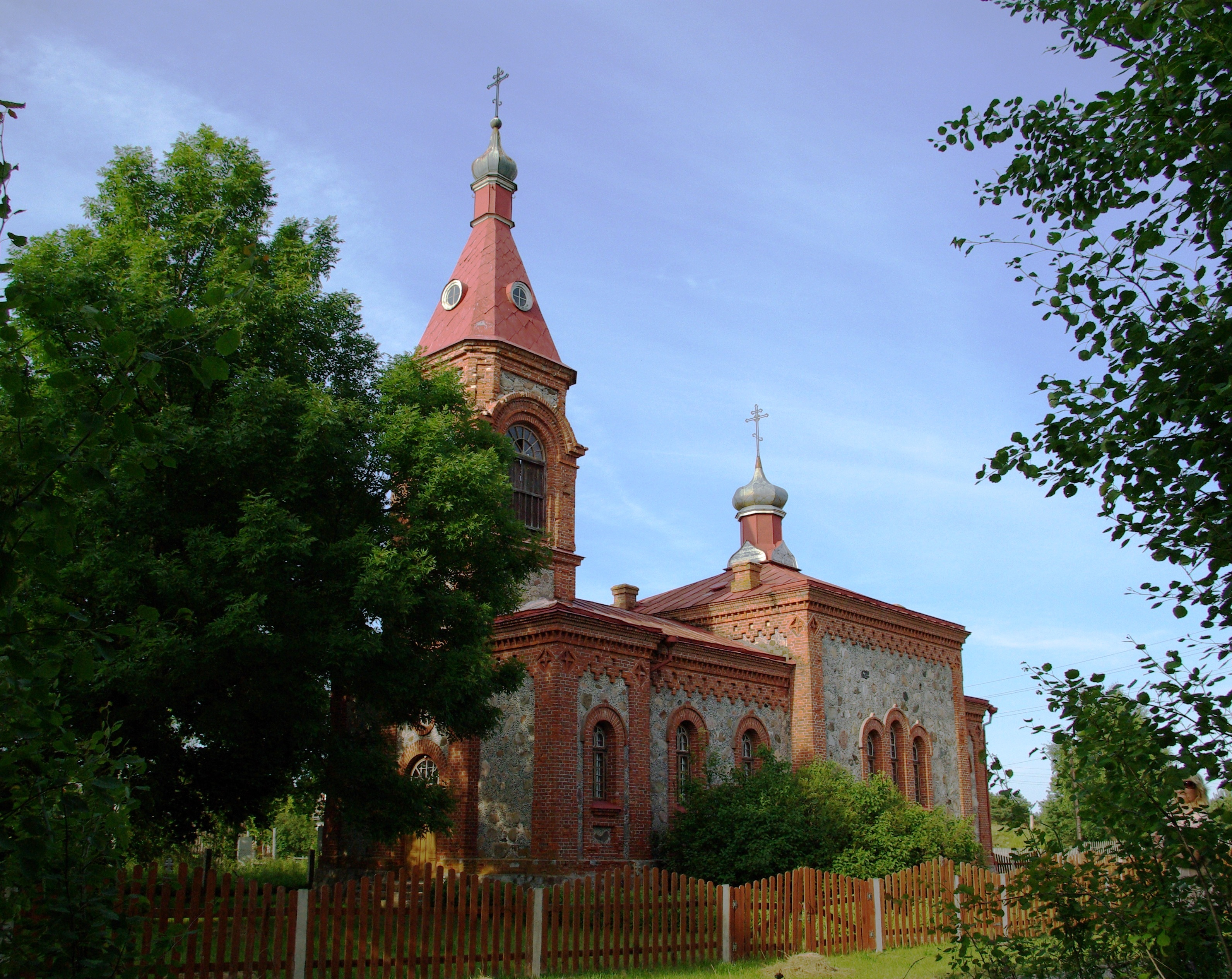 Orthodox church in Kolka, Latvia